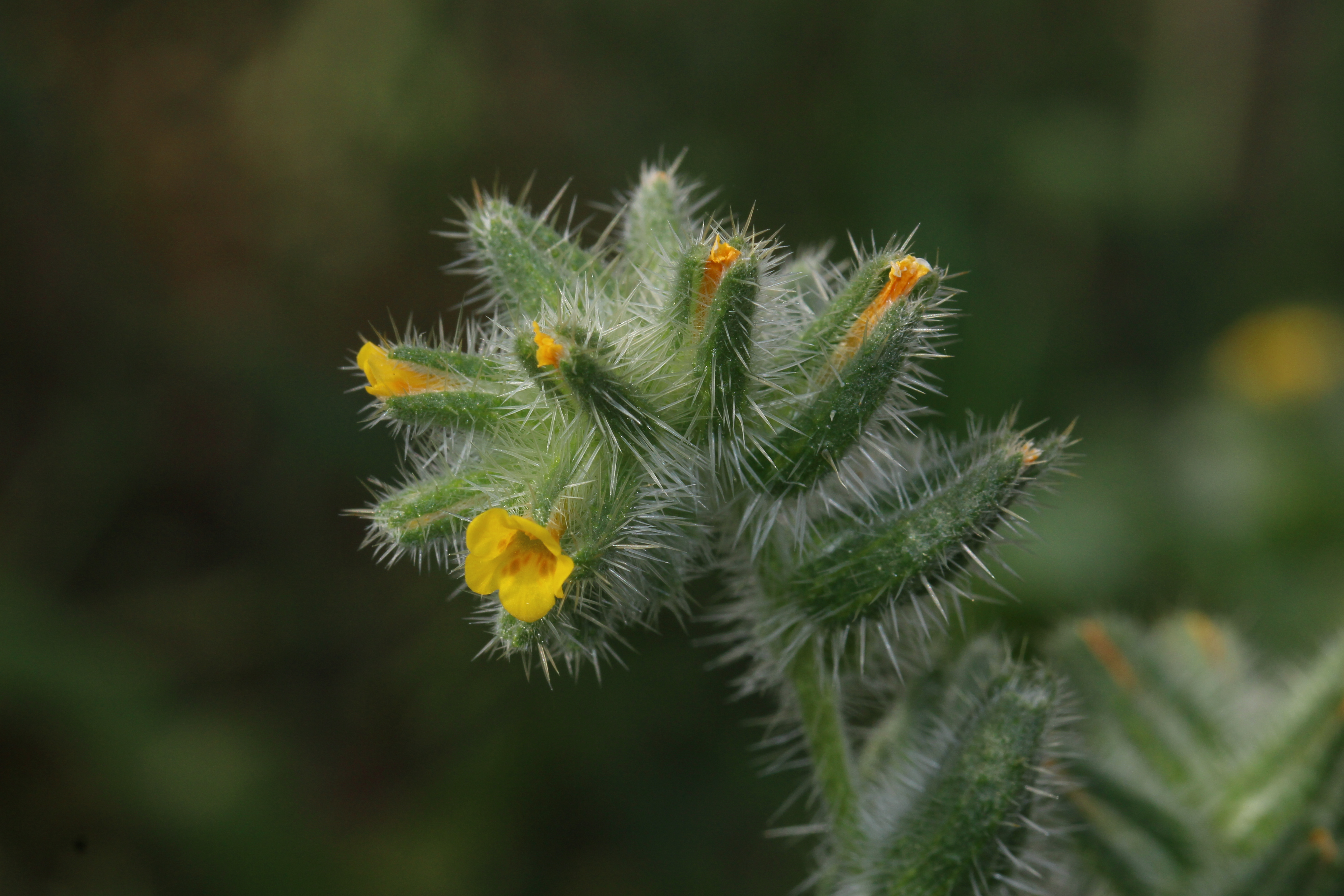 Bristly Fiddleneck Identification by: Linda Edwards and Vern Benhart Viewpoint location: Dry wash west of Godde Hill Road, 150 m north of Hacienda Ranch Road; Lancaster, California Viewpoint elevation: 932 meter (3056 ft) Location source: Garmin GPSmap 60CSx Location Datum: WGS84